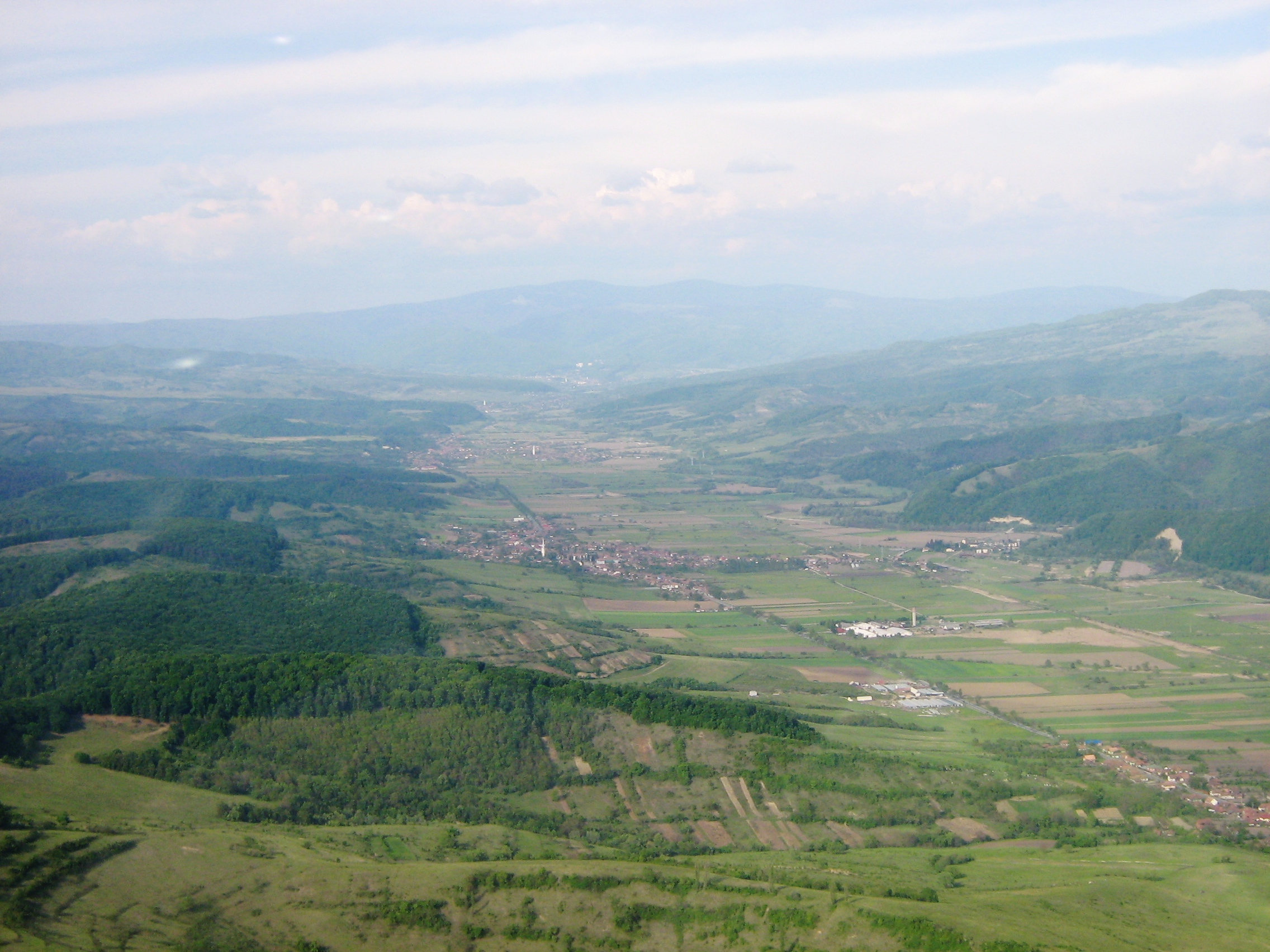 Ghindari, Mureș. The valley of the Târnava Mică river in Romania